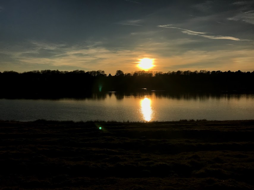 This was taken on a winters day the best day to get a Sunset on a photo in Tatton Park